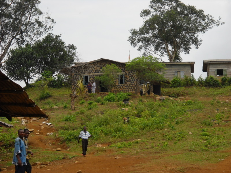 Presbyterian Church and Government Primary School Bisoro Balue